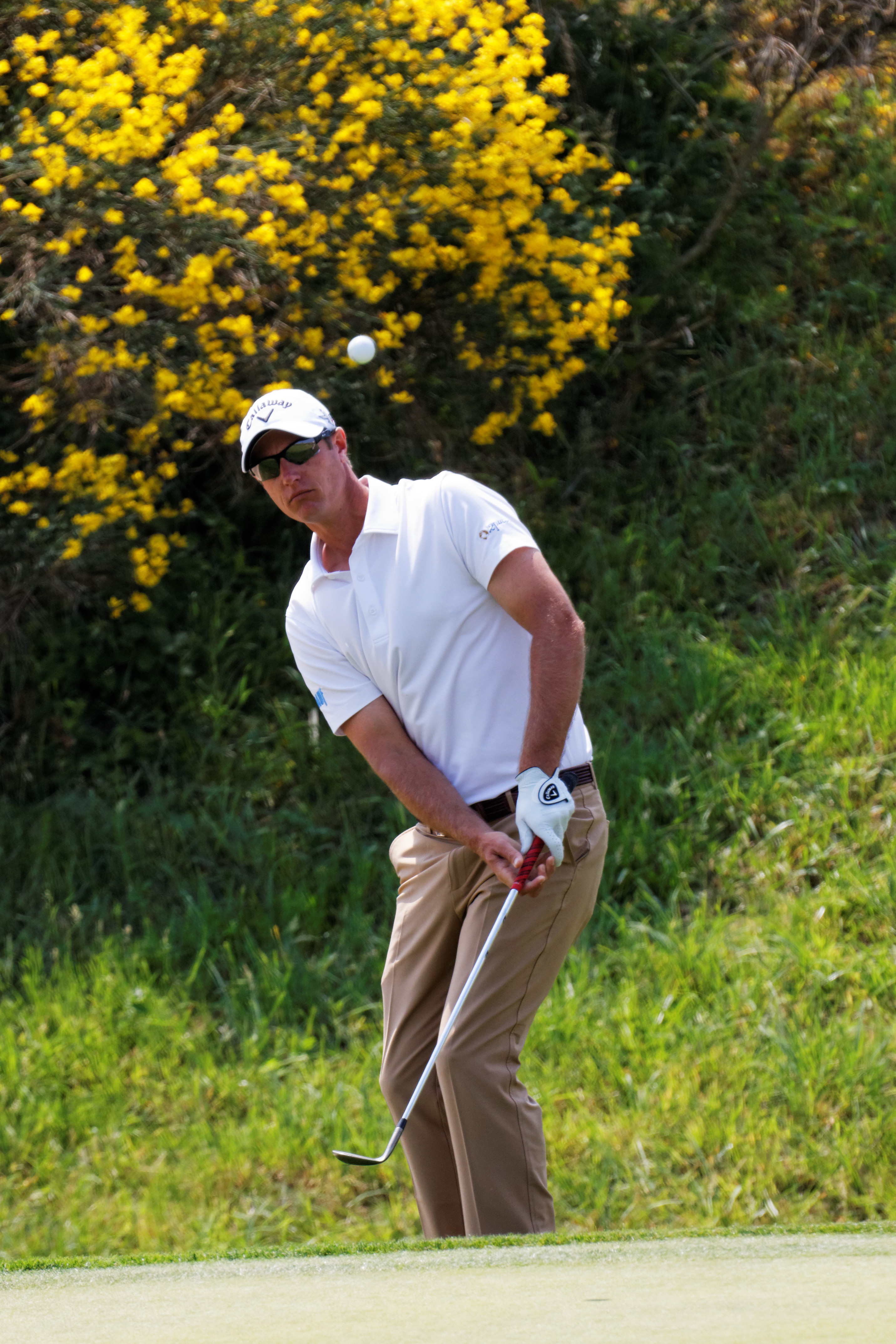 Photo taken from during the Alstom - French Open 2015